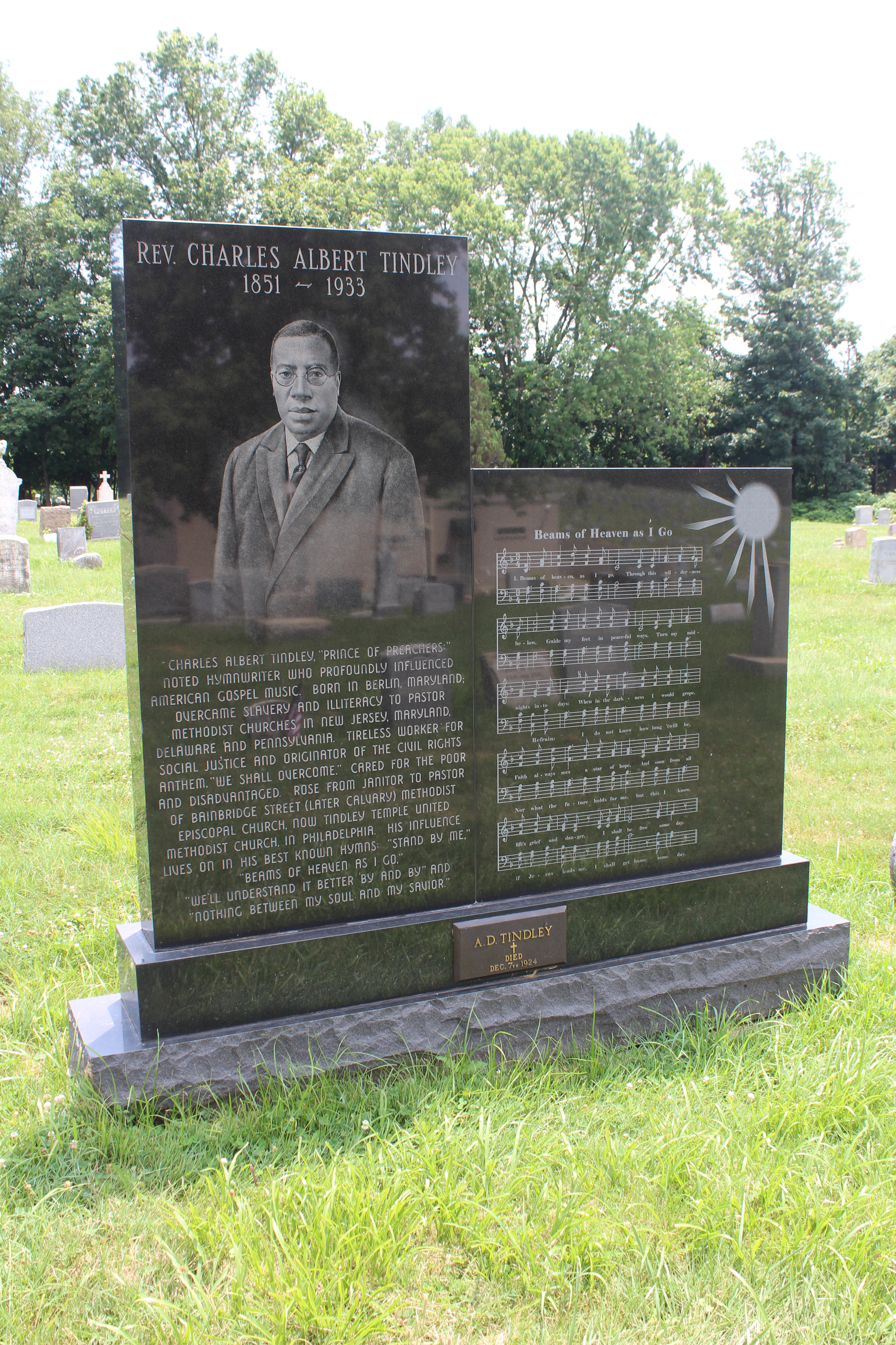 Charles Albert Tindley gravestone in Eden Cemetery, Collingdale, PA. Photo taken July 2019.